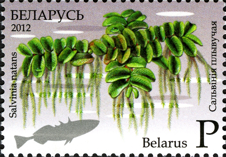 Stamp of Belarus